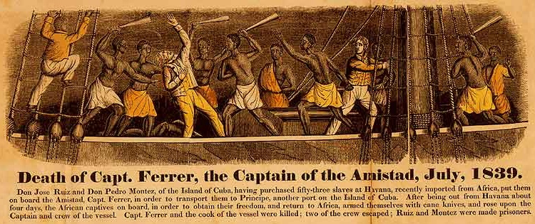 "Death of Capt. Ferrer, the Captain of the Amistad, July 1839." Caption: "Don Jose Ruiz and Don Pedro Montez of the Island of Cuba, having purchased fifty-three slaves at Havana, recently imported from Africa, put them on board the Amistad, Capt. Ferrer, in order to transport them to Principe, another port on the Island of Cuba. After being out from Havana about four days, the African captives on board, in order to obtain their freedom, and return to Africa, armed themselves with cane knives, and rose upon the Captain and crew of the vessel. Capt. Ferrer and the cook of the vessel were killed; two of the crew escaped; Ruiz and Montez were made prisoners."